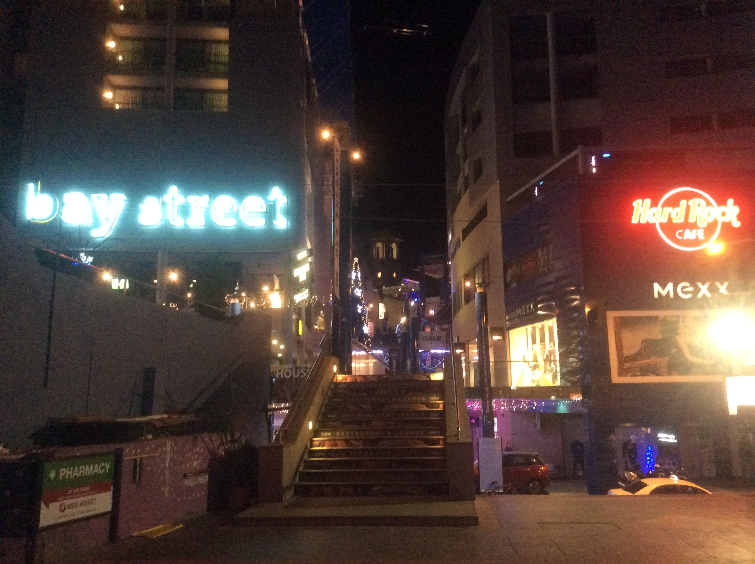 Paceville Bay Street St. Julians Malta